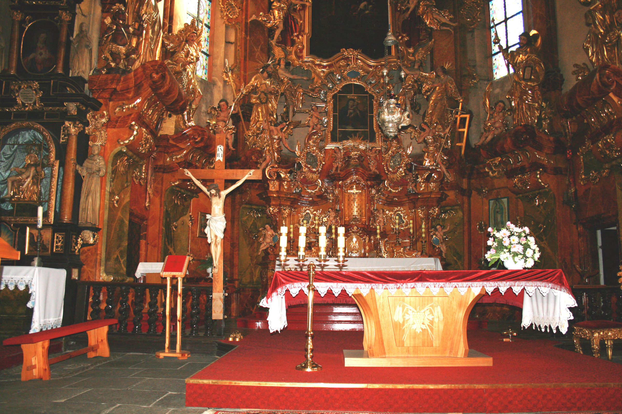 Main altar in Church of st Nicolas in Jaroměř, east Bohemia, Czech Republic